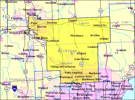 Map of Michigan's 9th congressional district for the en:106th United States Congress, illustrating boundaries prior to redistricting in 2002.